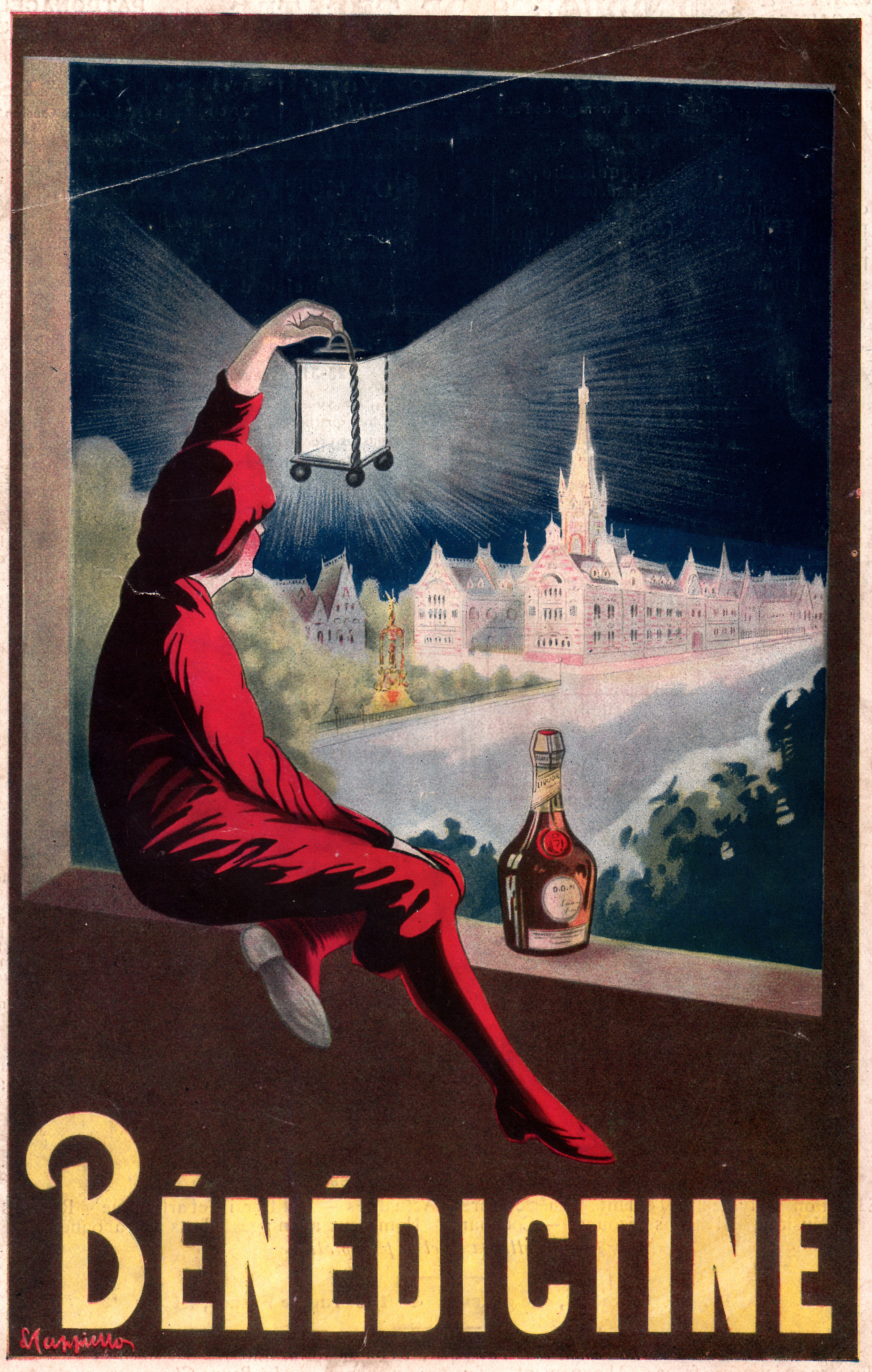 Poster, Advertising "Benedictine" by Leonetto Cappiello Advertising published in the monthly magazine "La bonne chanson" in 1908 (original size: 27.5 x 18.5 cm), A man dressed in red, sitting on the edge of a window, raises a lantern that highlights the "Benedictine palace" of Fécamp, France, where the liquor is produced